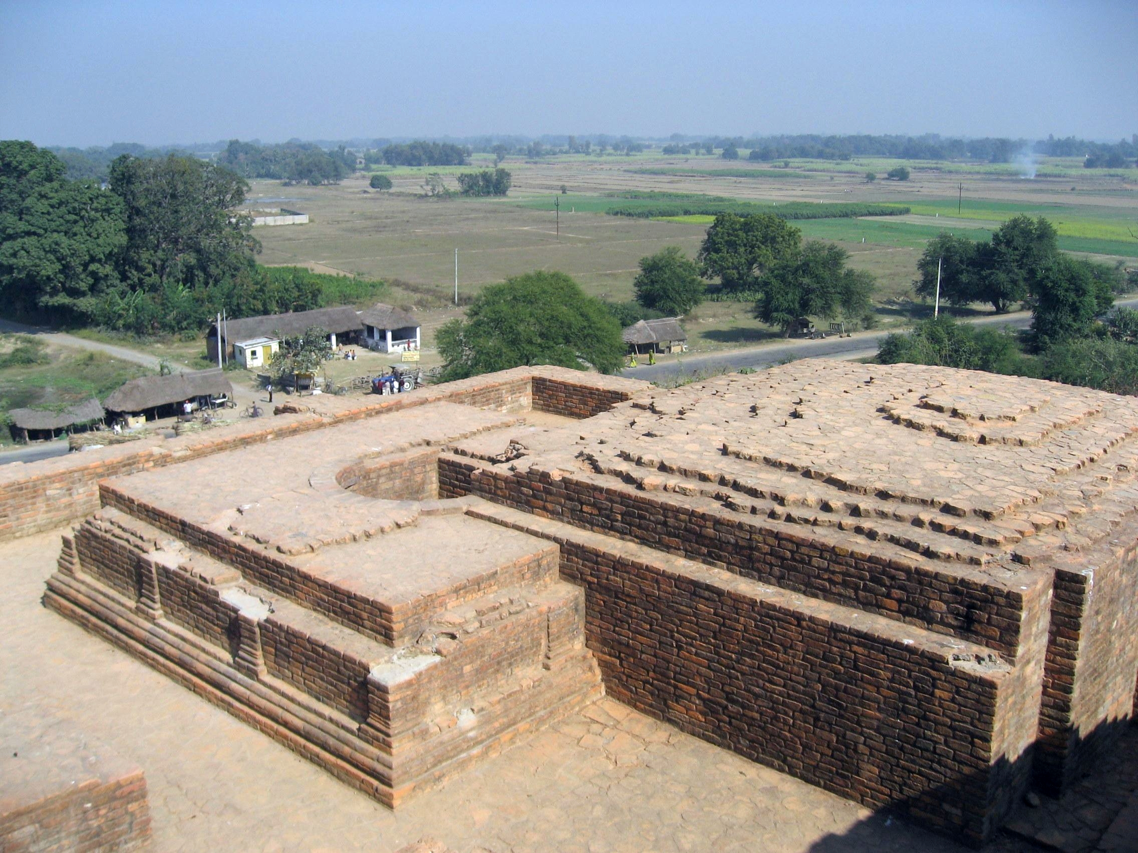 Site of the Twin Miracle, performed by Buddha in Sravasti. Picture from the top of the Stupa/structure. Currently this place is locally known as Orajhar.